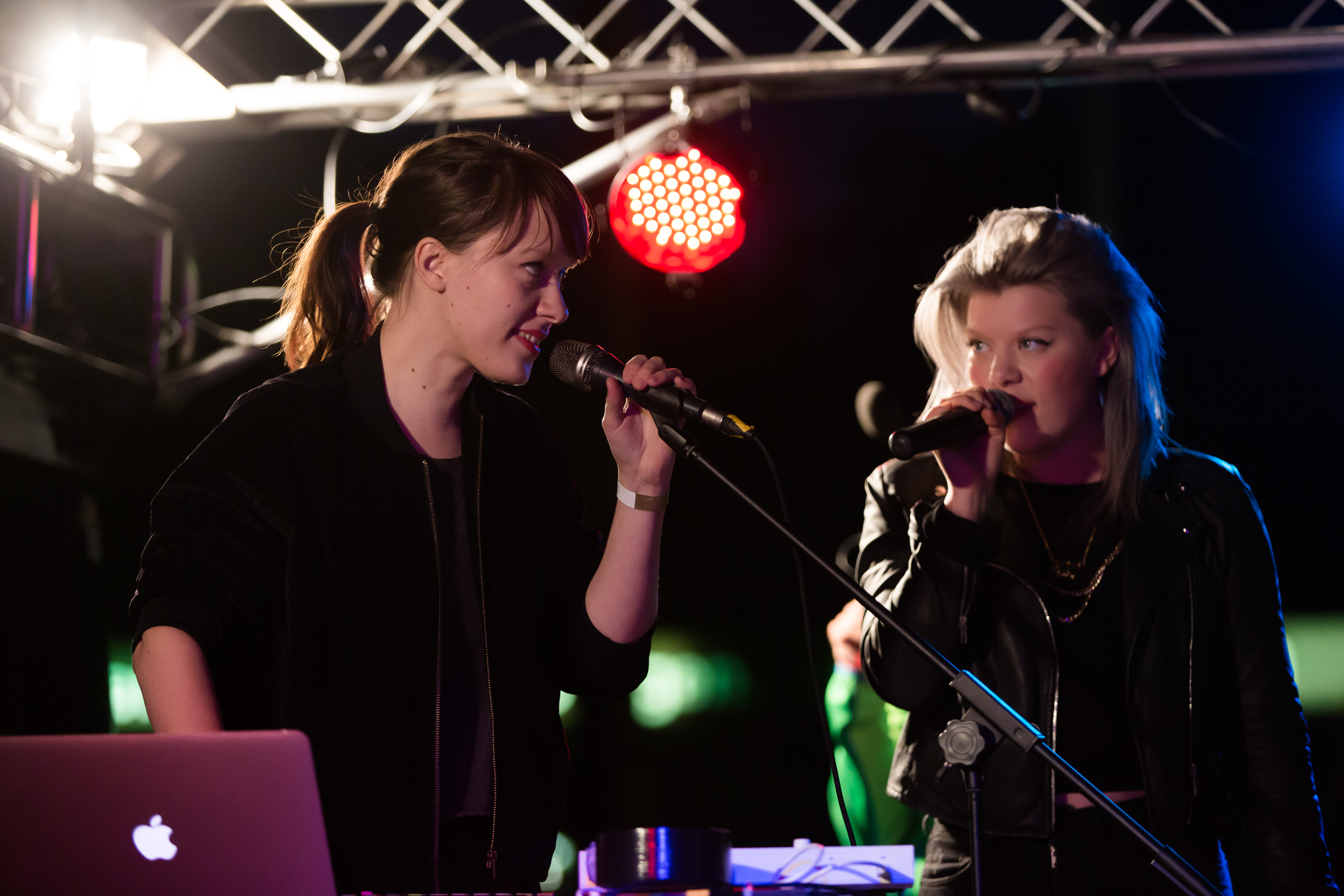 Le Corps Mince de Françoise, concert at Waves Vienna 2015 (Vienna, Austria).